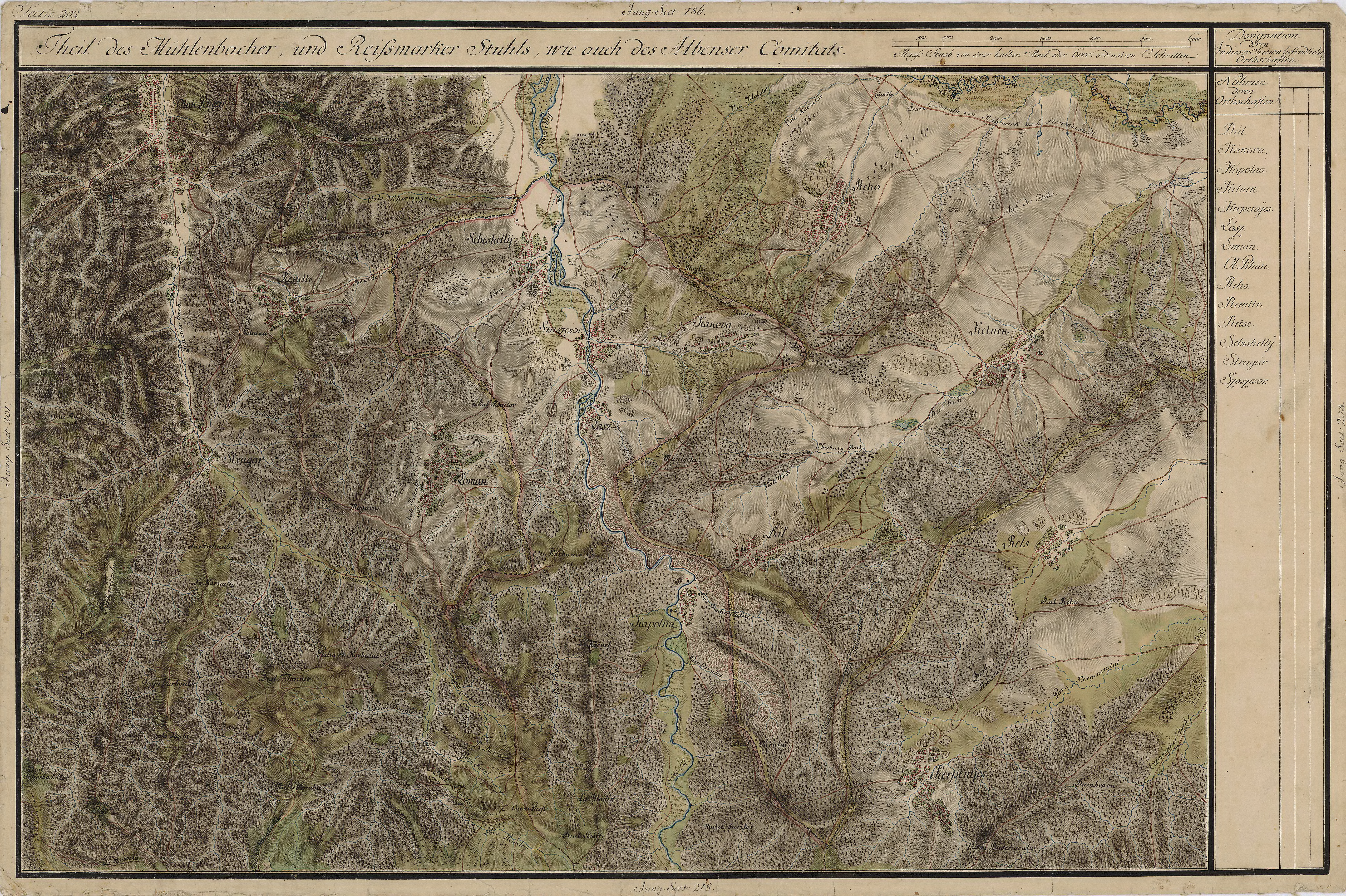 Grand Duchy of Transylvania, 1769-1773. Josephinische Landaufnahme pg.202